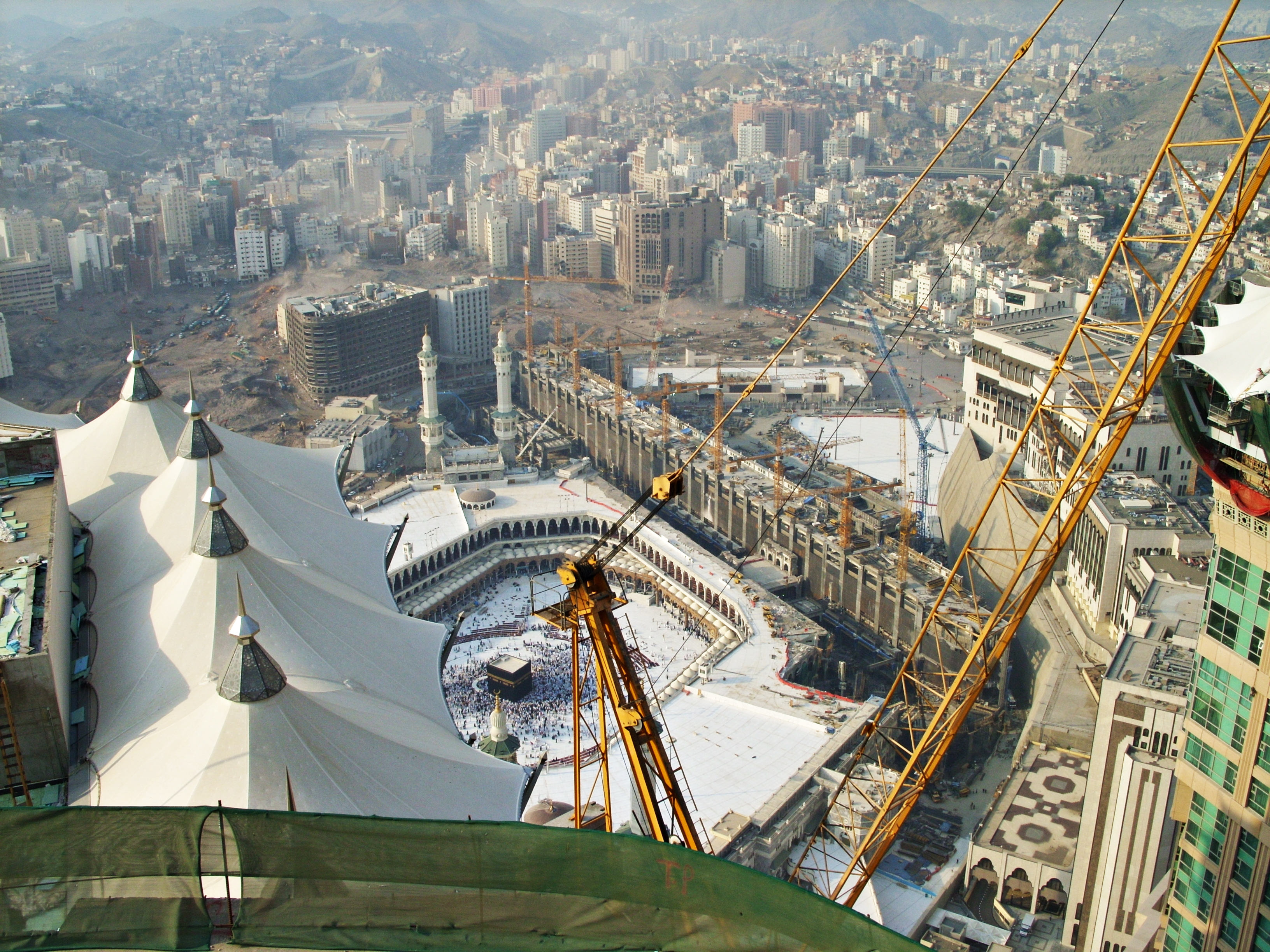 View from under-construction Abraj Al-Bait.